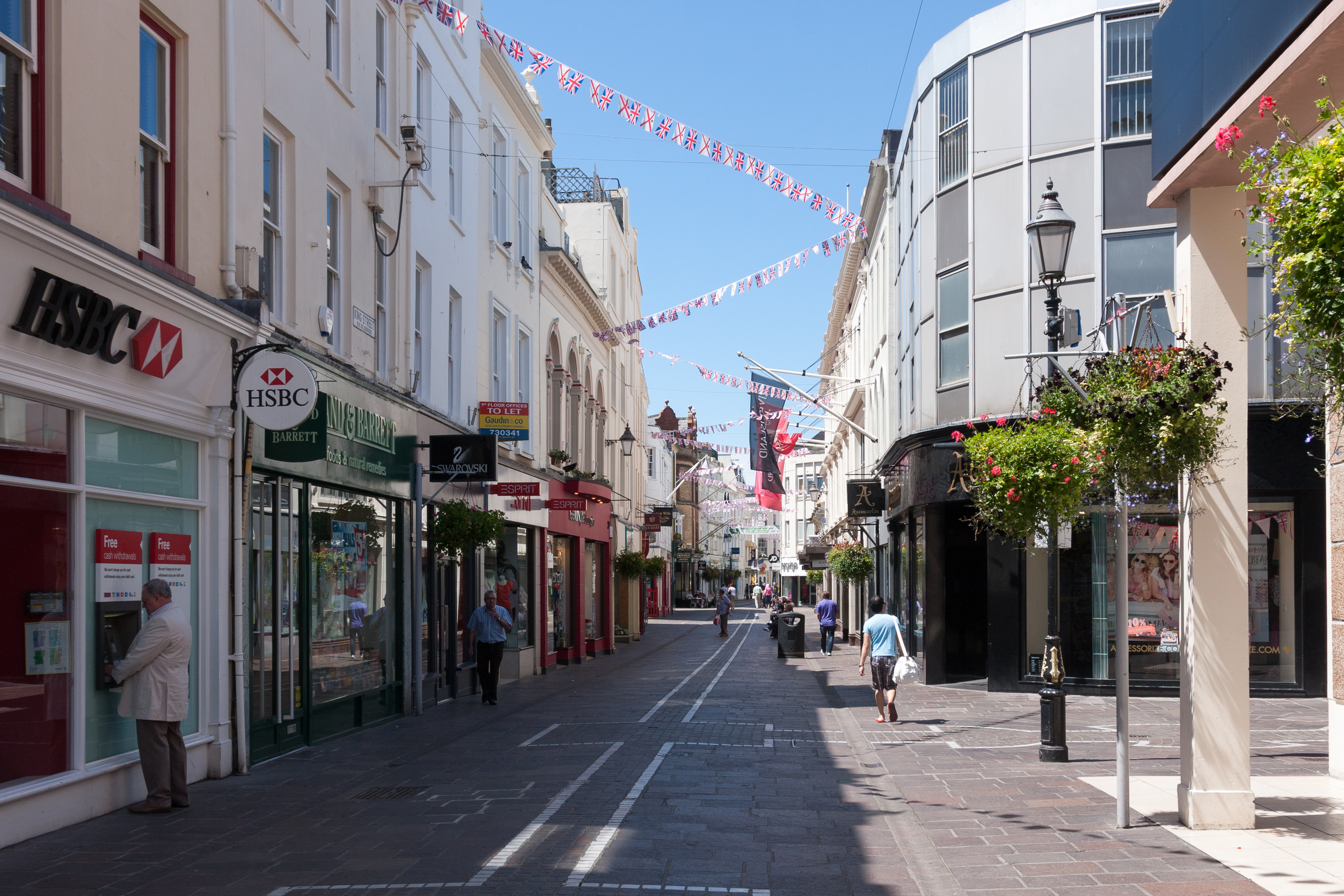 Look west down King Street near the junction with Don Street in St Helier, Jersey.